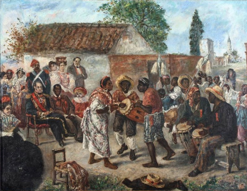 Work titled "Candombe federal, época de Rosas". General Juan Manuel de Rosas in a candombe.